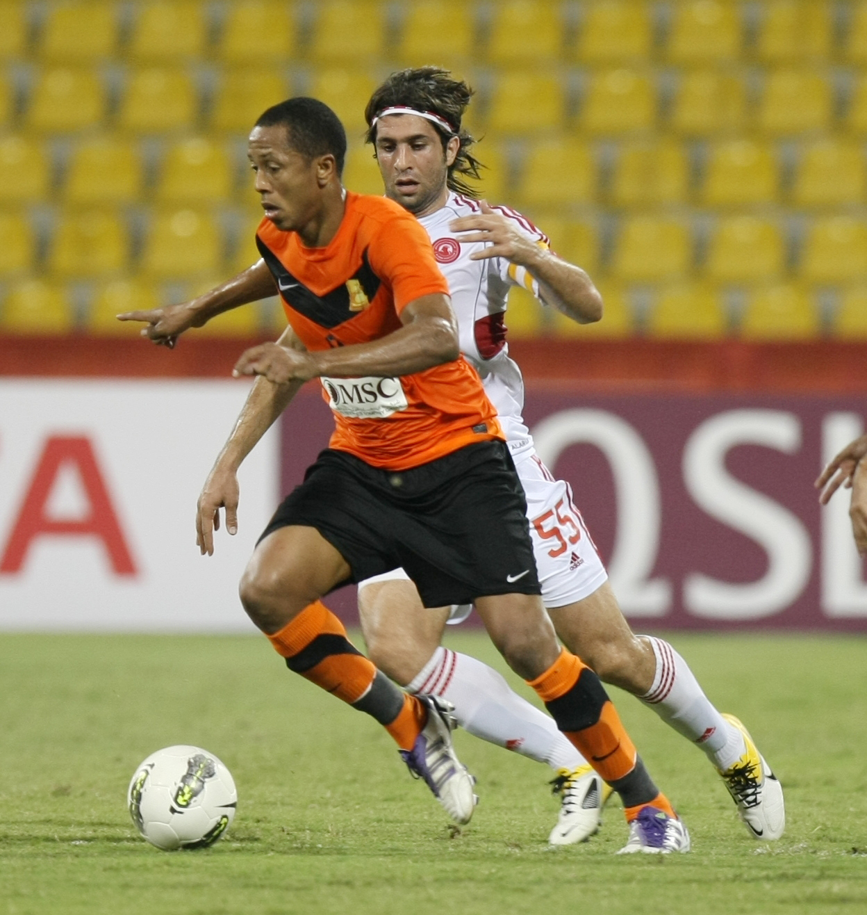 Umm Salal's Brazilian professional Cabore, left, gets past Al Arabi's Iranian player Hadi Aghili.